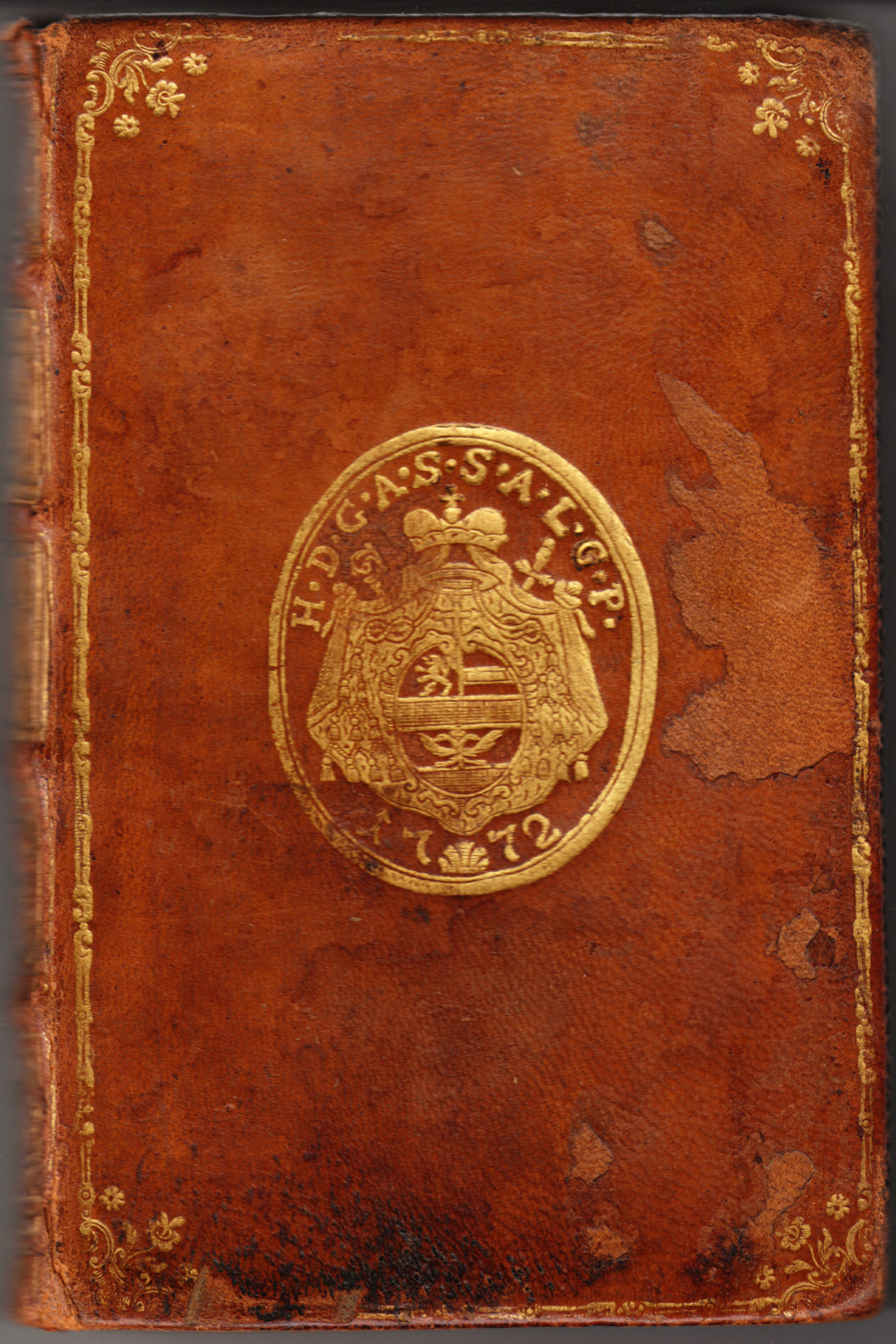 This calf leather bookbinding shows a supralibros with coat of arms of Hieronymus of Colloredo, Archbishop of Salzburg.